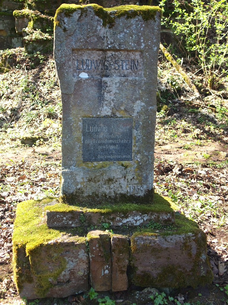 Ludwig-Stone upon the Hessian Cliffs in Bad Karlshafen